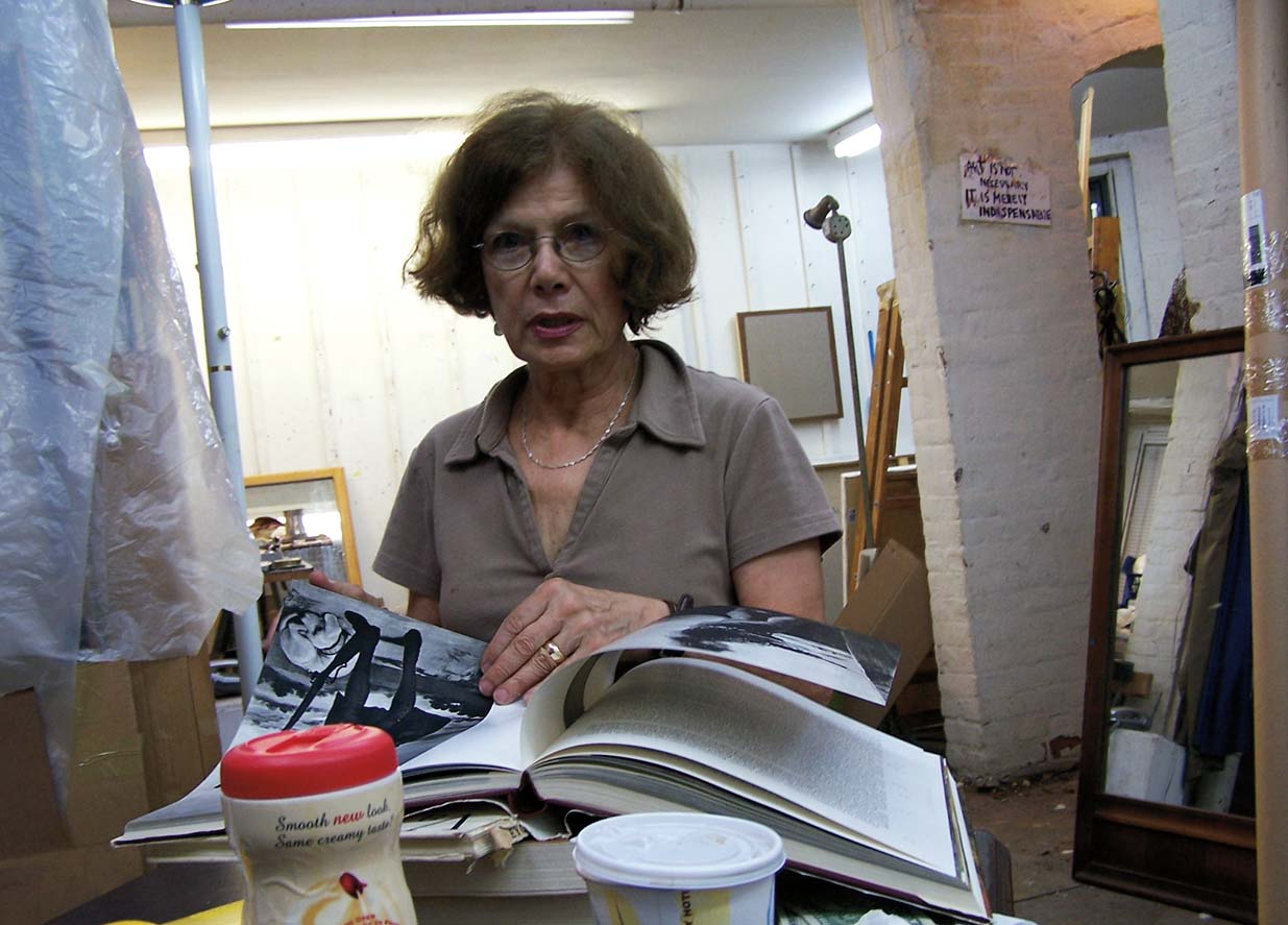 Renee Radell in East Village, Manhattan art studio 2005